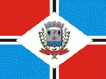 Flag of Brotas - SP - Brasil.